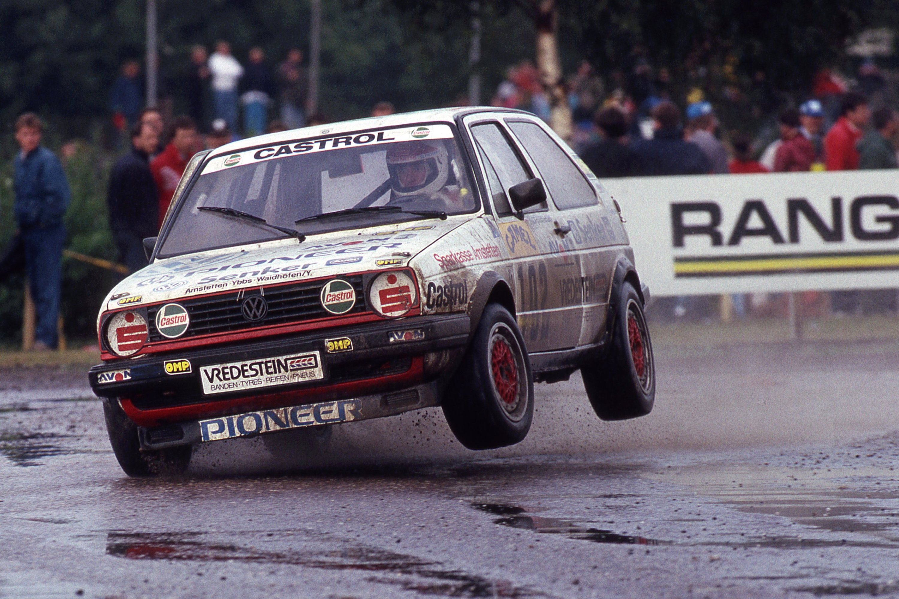 The late Austrian Rallycross driver Herbert Breiteneder († 2008) pictured with his GpA VW Golf GTI 16V during the 1988 ERC round at the Eurocircuit at Valkenswaard in Holland.